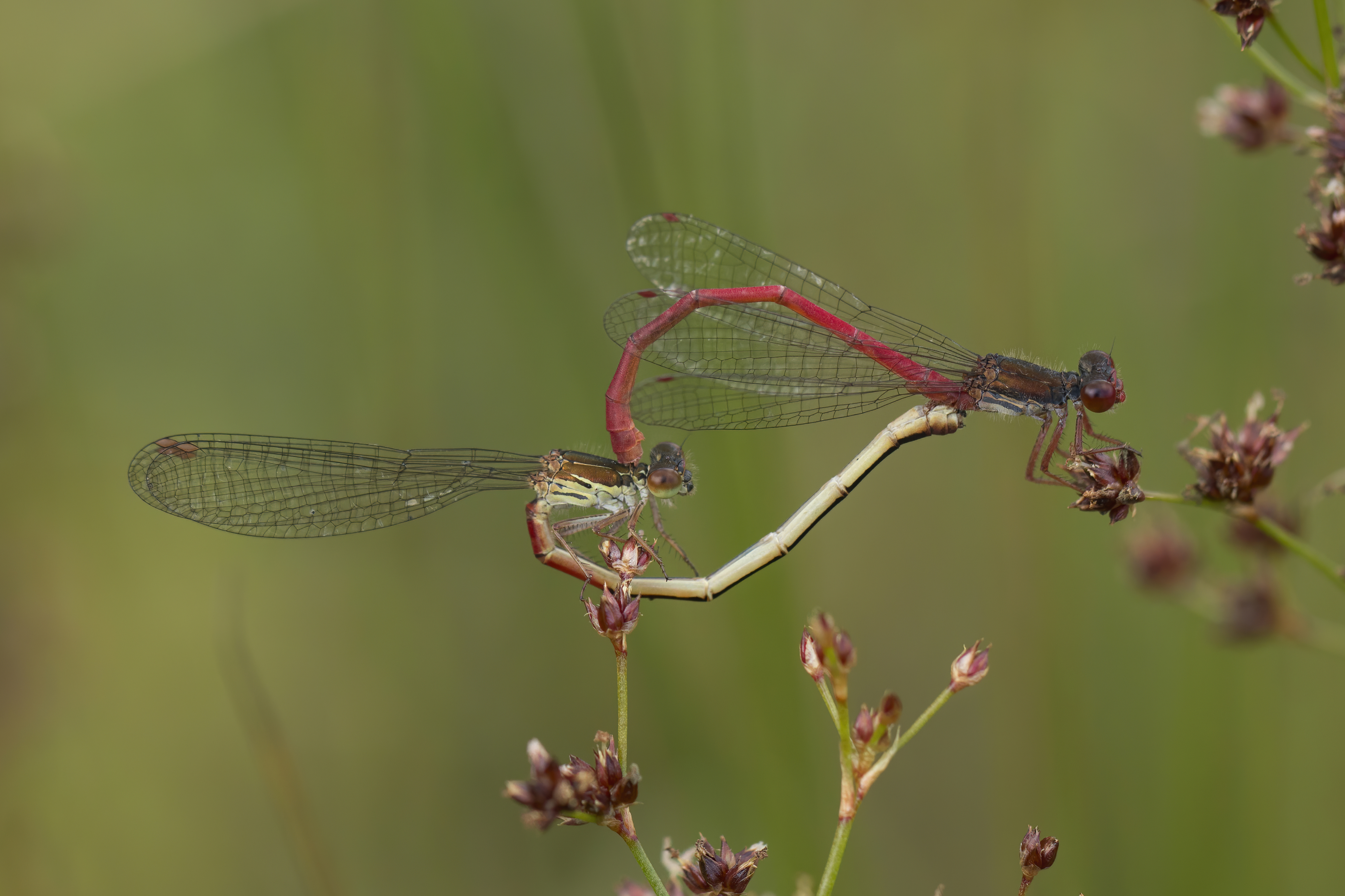 Small red damselflies (Ceriagrion tenellum) mating, female form typica, Ober Water, Hampshire. Female on left, male on right.